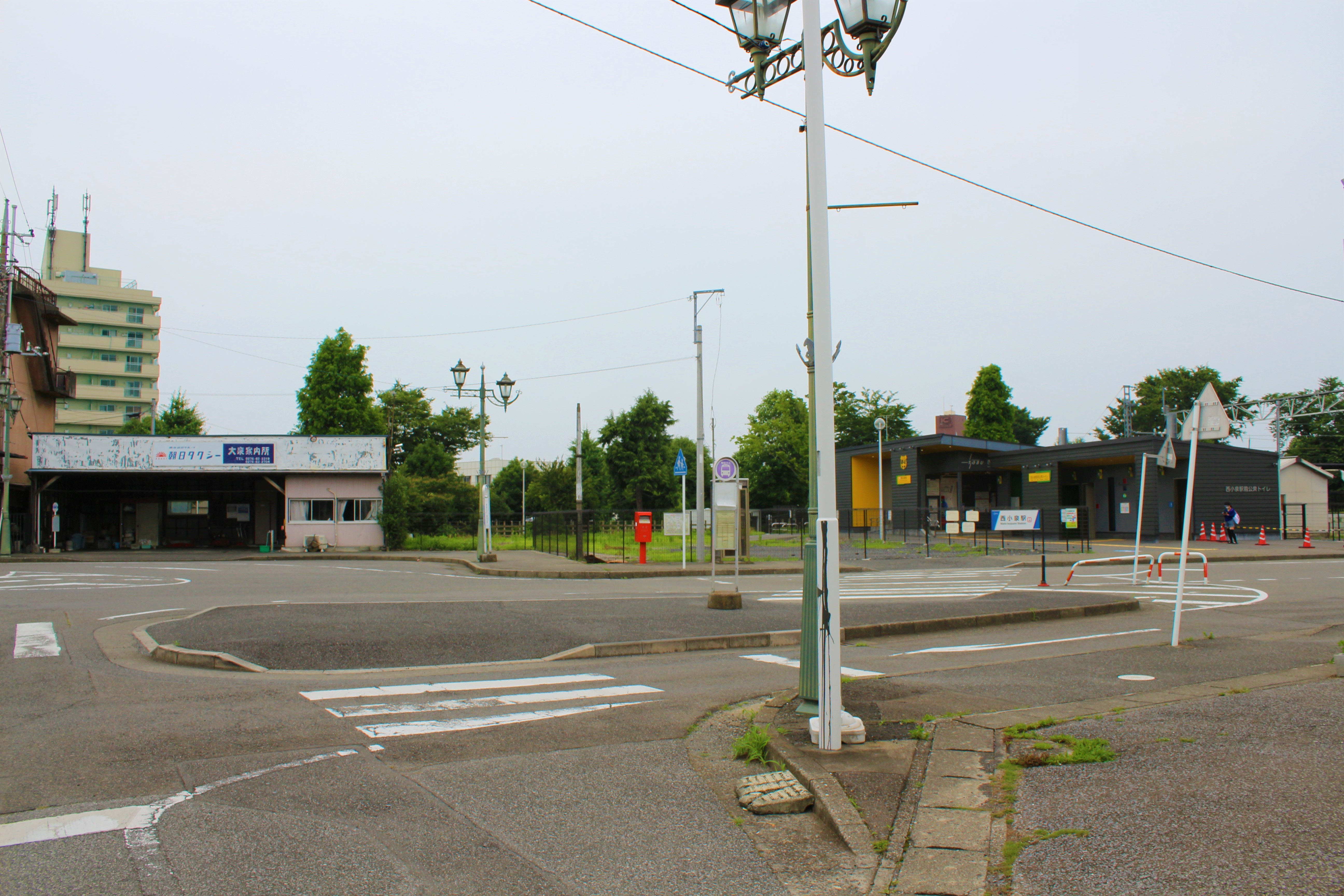 Nishi-Koizumi Station squareCanon EOS Kiss X7i